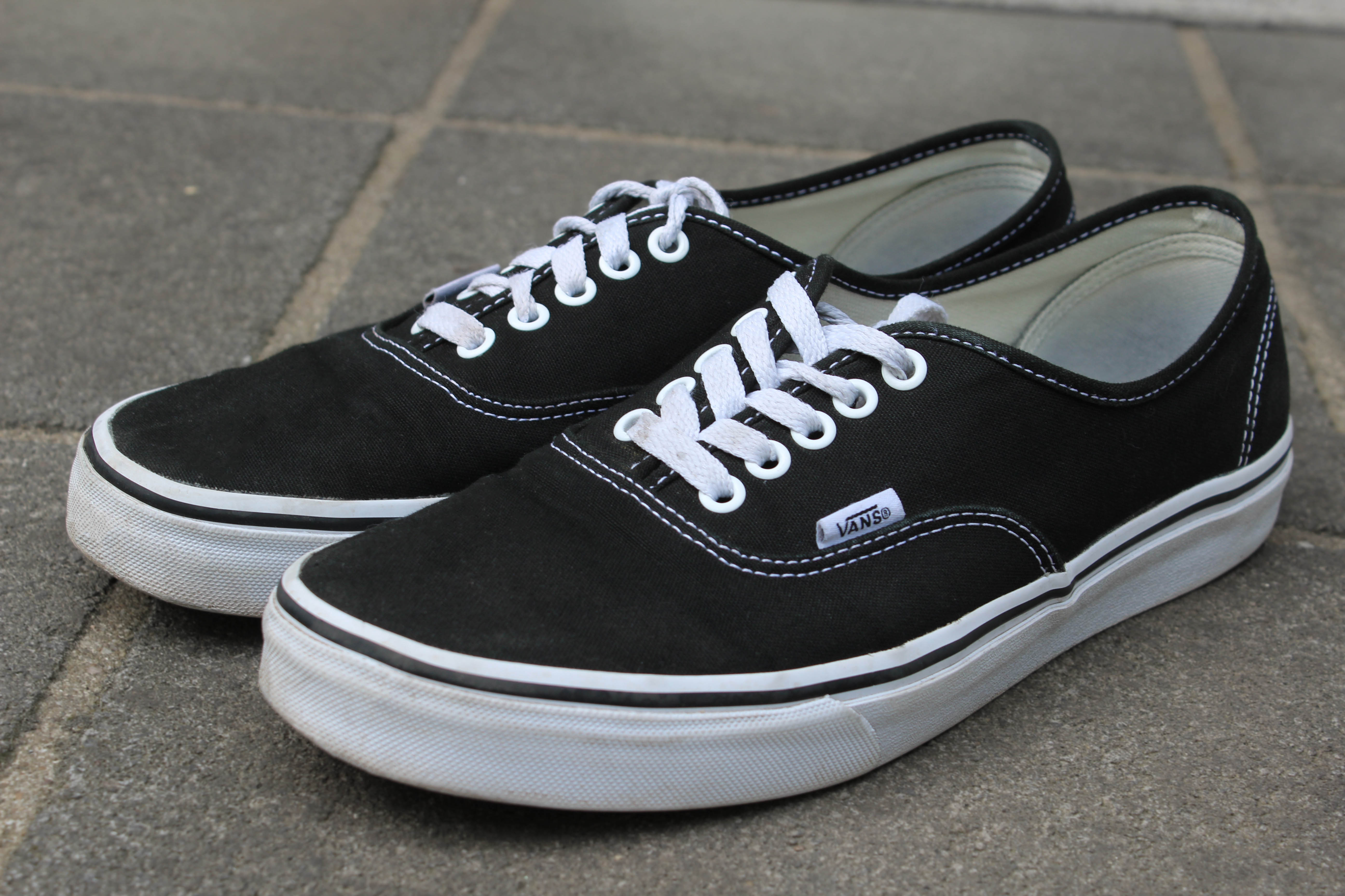 Vans Authentic in black.